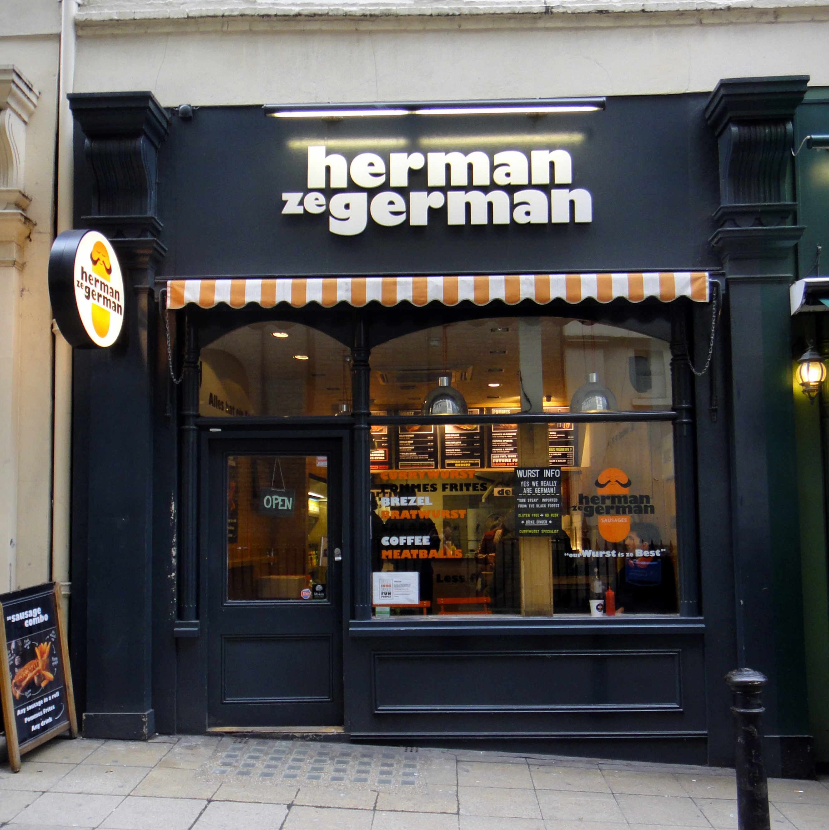 Rainy London in March